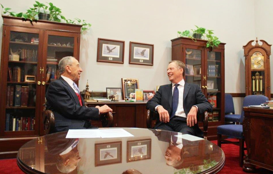 Robert Lighthizer, USTR nominee, meets with Senator Charles E. Grassley, the Chairman of the Judiciary Committee